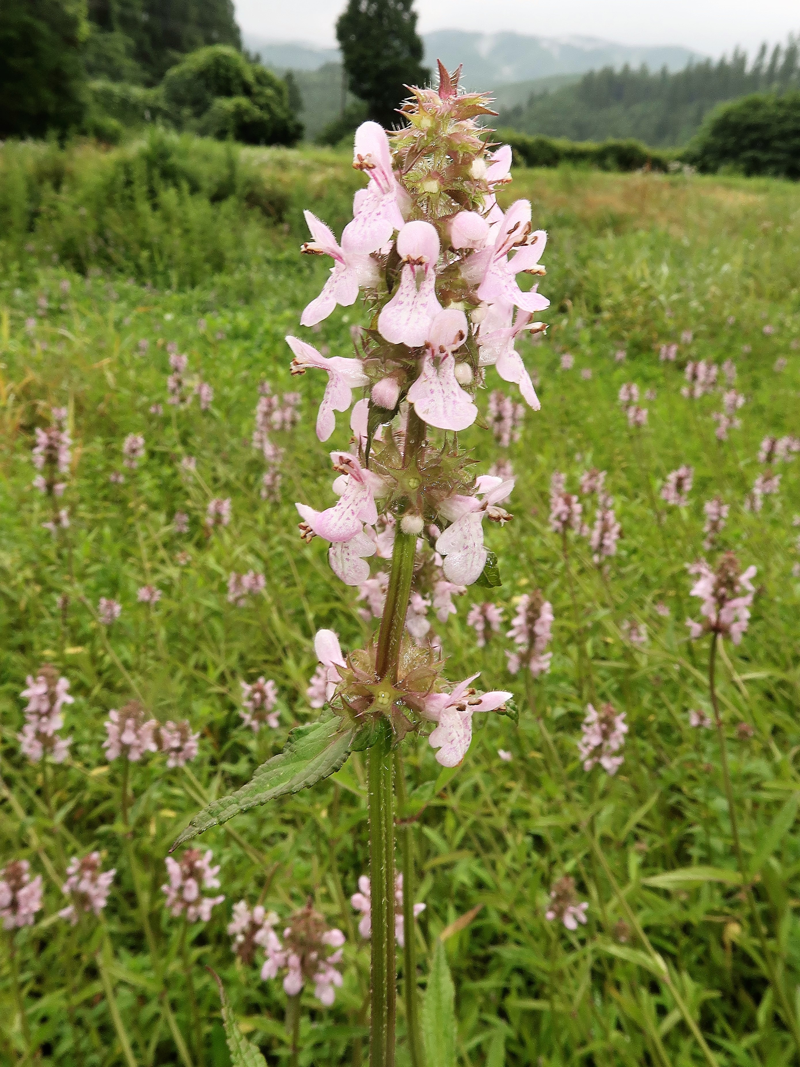 Stachys aspera var. hispidula, nouth area, Ibaraki pref., Japan